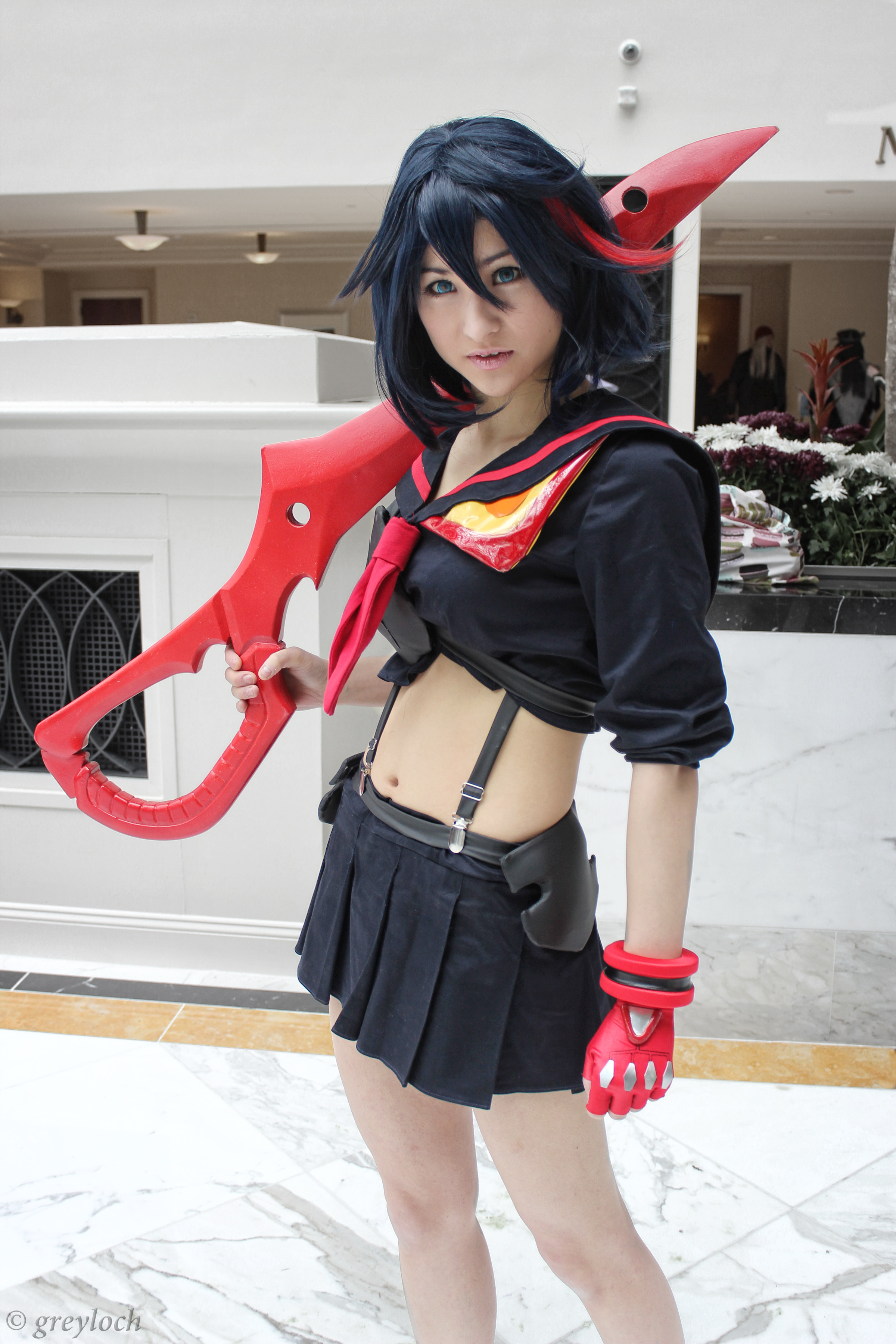 At least I know who she is cosplaying. She is the main character from the anime "Kill la Kill." Can anyone ID the cosplayer? This is nice-looking photo and I would love for her to get a copy of it. EDIT: Someone identified the cosplayer (on my Tumblr feed) as Most Flogged. She has some really good cosplays up on her site - go check 'em out!